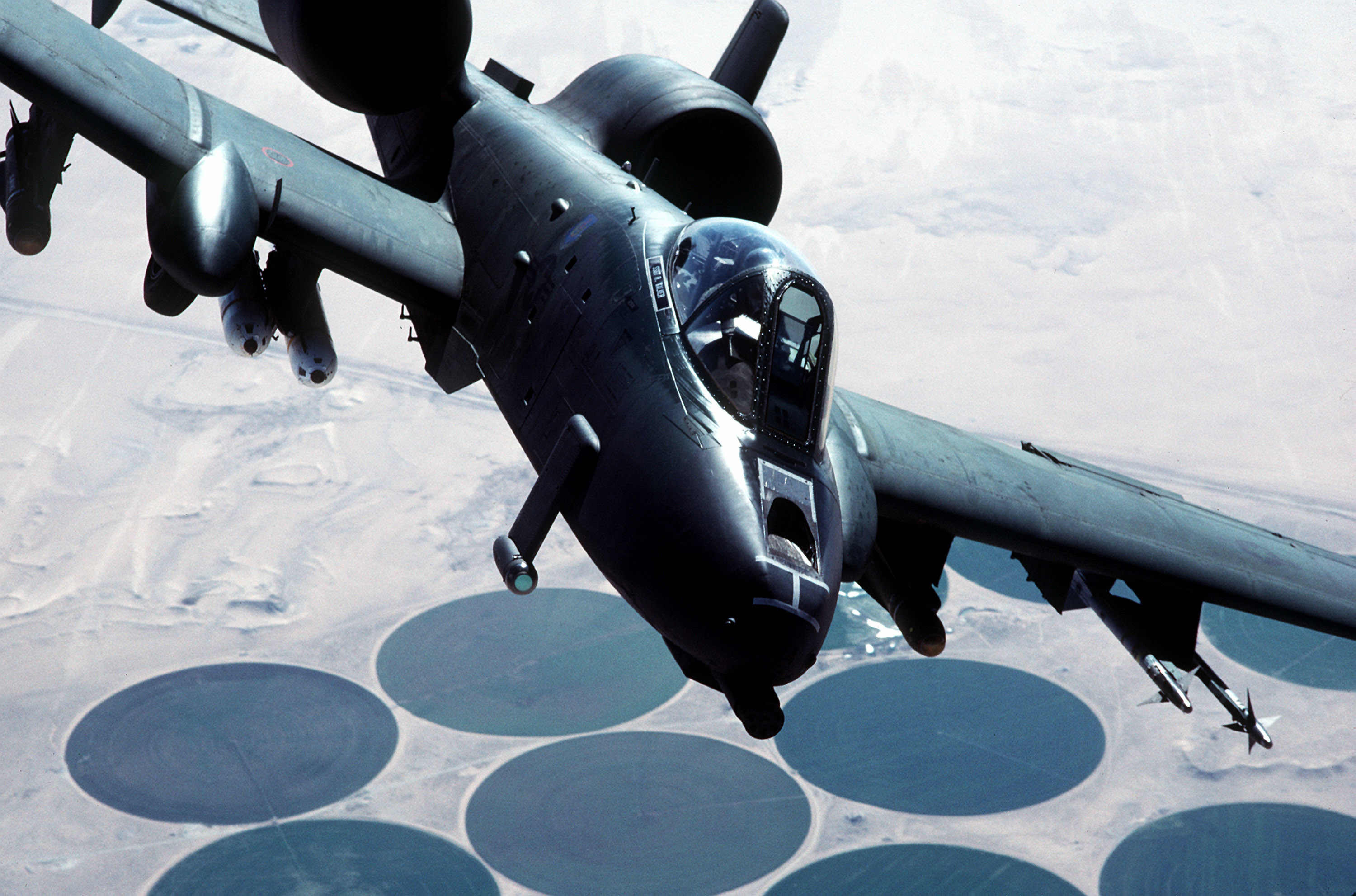 An A-10A Thunderbolt II aircraft flies over a target area during Operation Desert Storm.